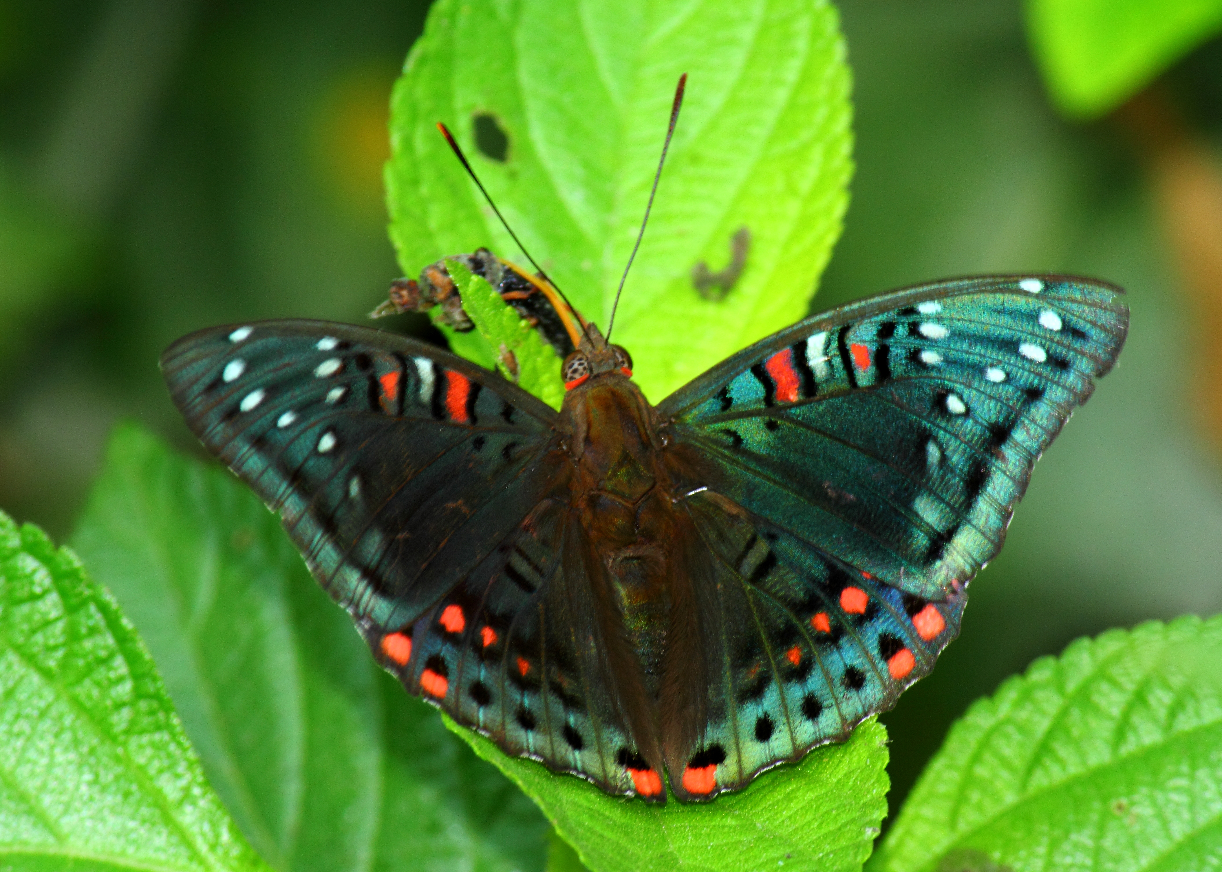 Open wing position of Euthalia lubentina Cramer, 1777 – Gaudy Baron. Subspecies: Euthalia lubentina lubentina Cramer, 1777 – Chinese Gaudy Baron. This species is legally protected in India under Schedule IV of the Wildlife (Protection) Act, 1972.